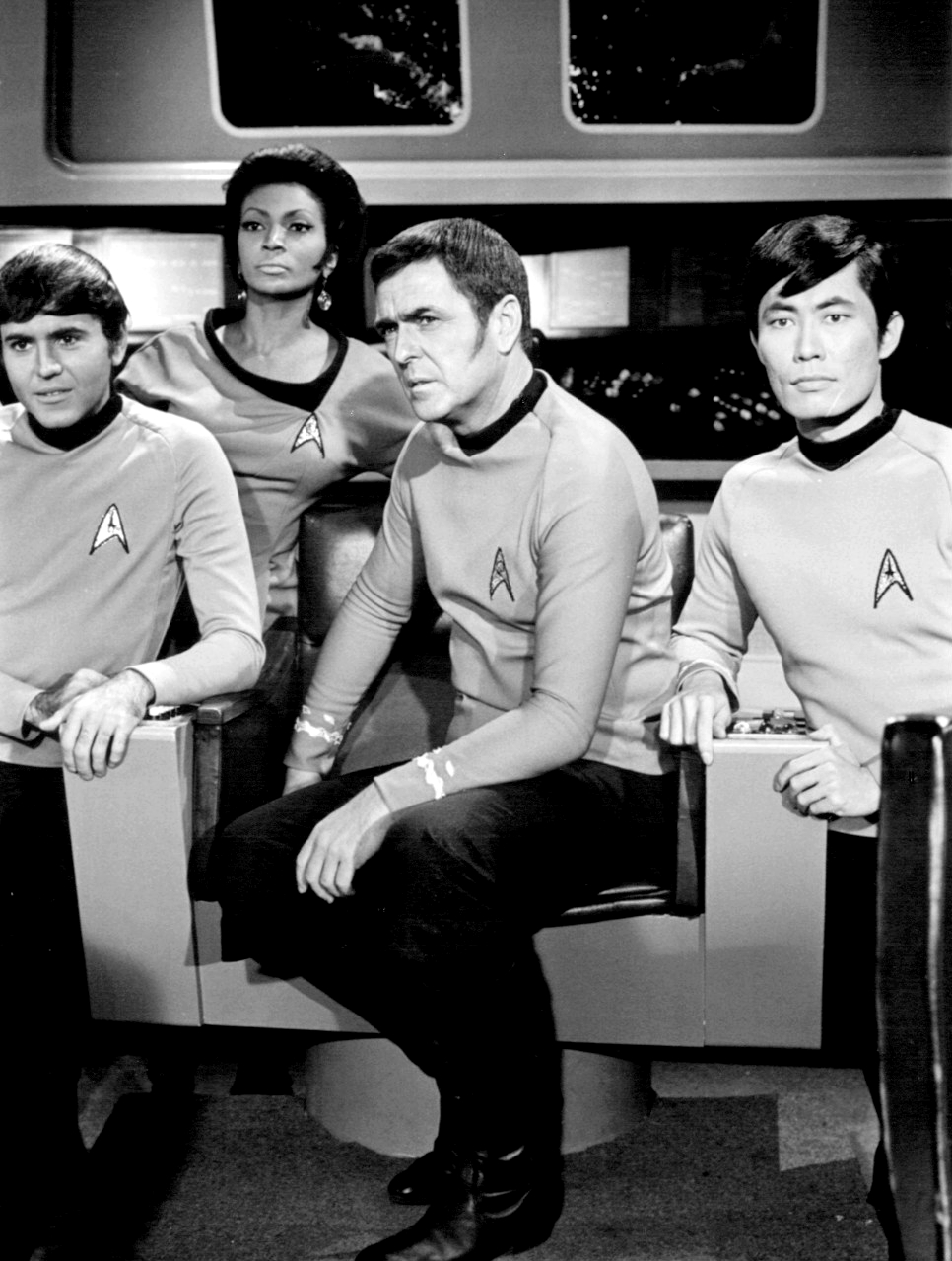 Photo of the crew of the Starship Enterprise from the television series Star Trek. From left: Chekov (Walter Koenig), Uhura (Nichelle Nichols), Scott (James Doohan) and Sulu (George Takei). They await the results of a battle which could mean the destruction of their spacecraft in the episode "Let That Be Your Last Battlefield".